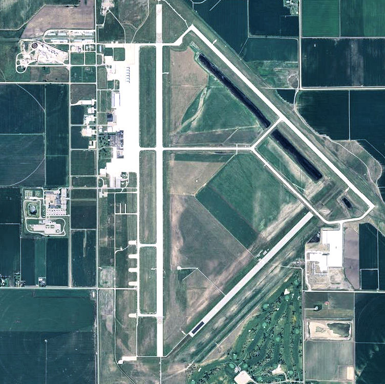 USGS digital orthophoto of Grand Island Army Airfield in Nebraska